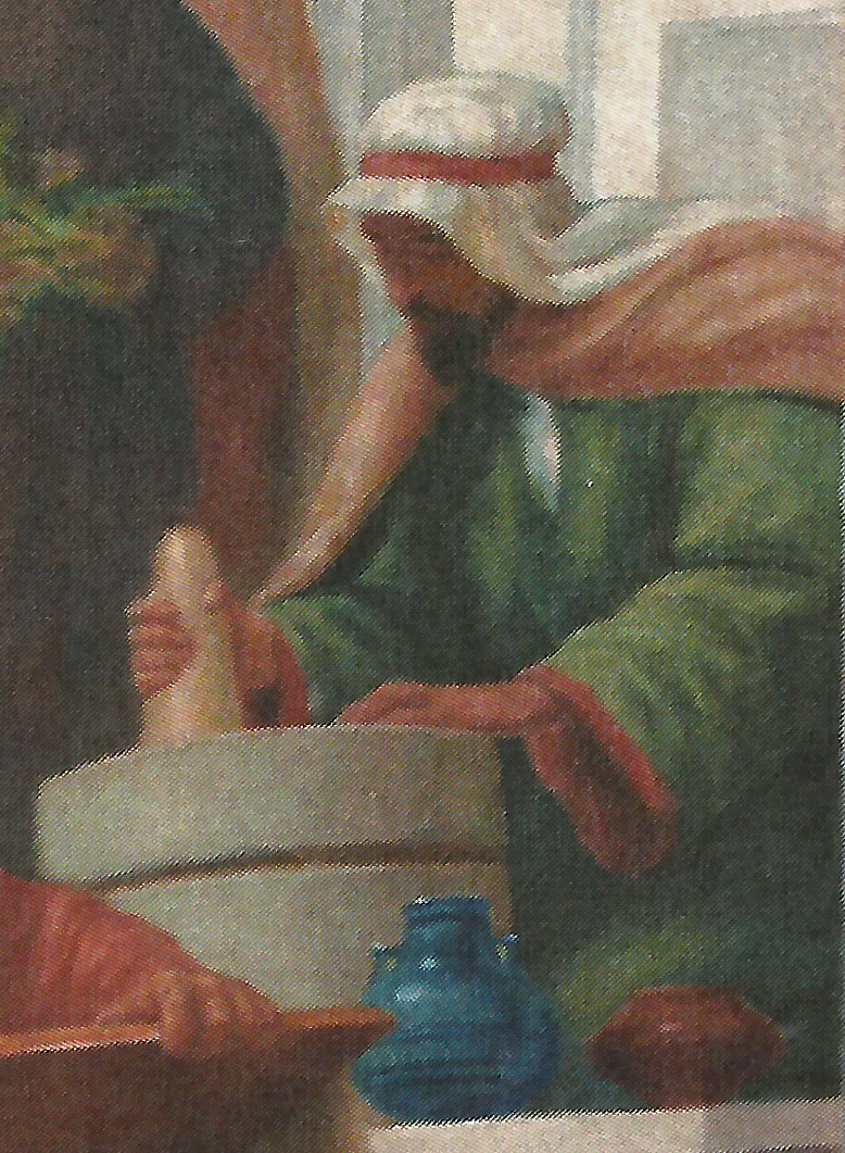 "Arabic Medicine" (c. 1906), by Veloso Salgado